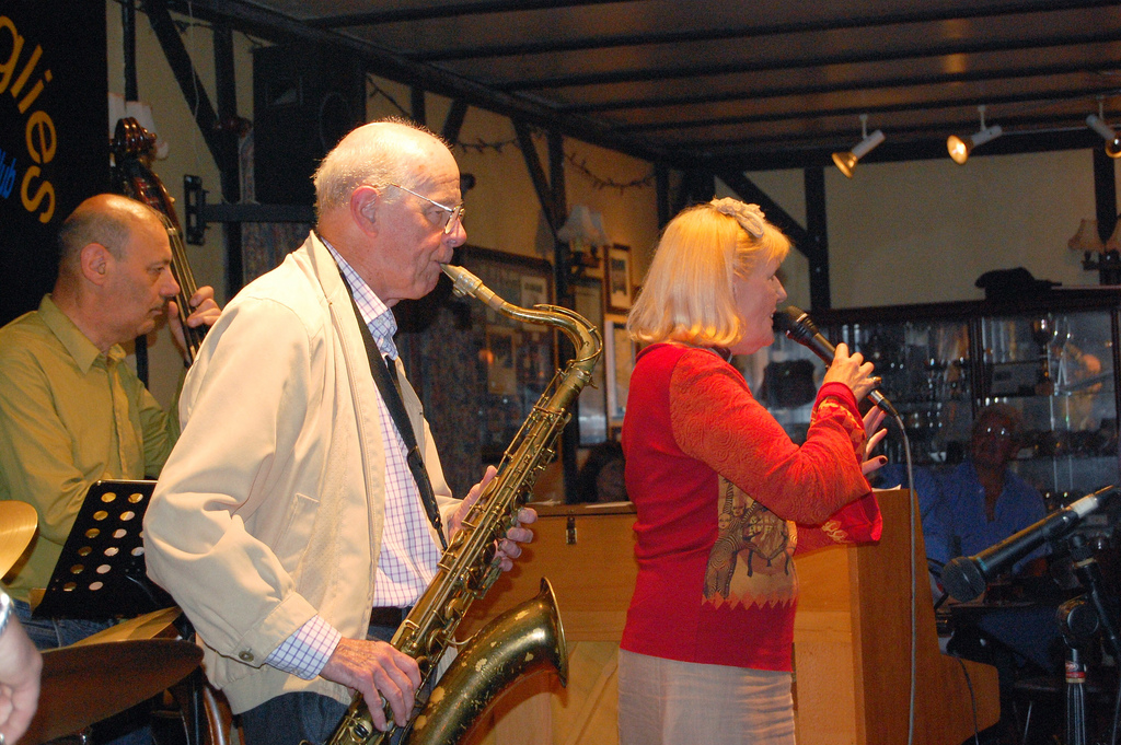 Tommy Whittle and Barbara Jay, In the world of saxophone playing, Tommy has been renowned and respected throughout his career. He joined the great Ted Heath Band when he was only 20 years old. After five and a half years, he left to further his solo playing desires and, in fact, became a featured soloist with the BBC Showband. He won popularity polls then, and again as recently as 1990 and 1991 when he won the British Jazz Award for Top Tenor Saxophone.